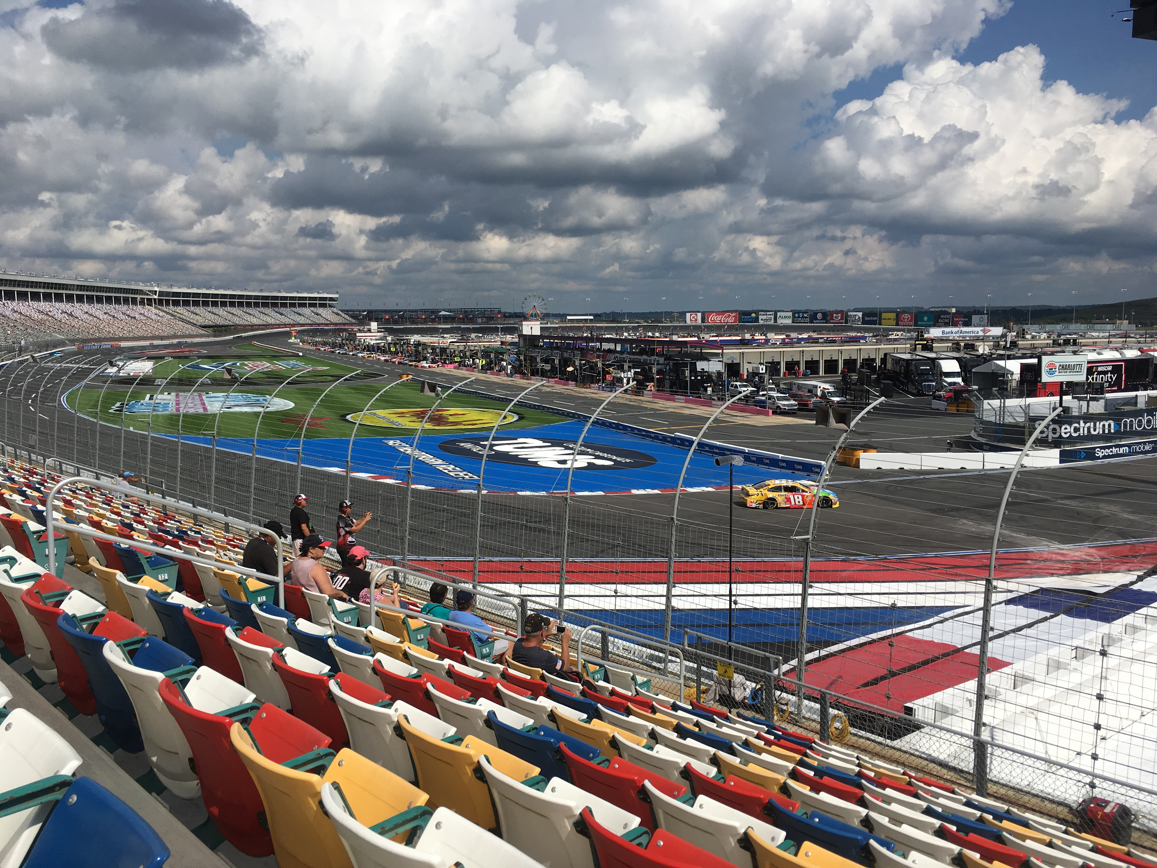 Final practice for the 2018 Bank of America Roval 400 at Charlotte Motor Speedway viewed from turn 1. Kyle Busch (#18) drives by on the track.